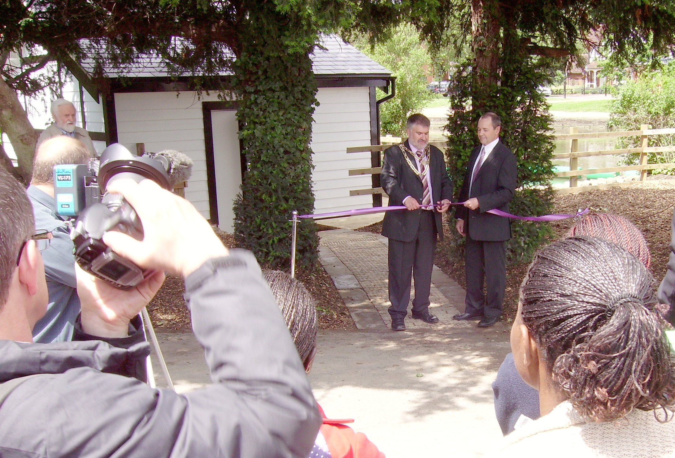 Bedford Boat Slide - Archimedean Screw Turbine - Opening - The tape cutting ceremony performed by Bedford's mayor Dave Hodgson.